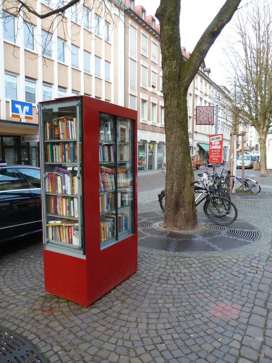 Public bookcase on Werderplatz in Karlsruhe, Germany